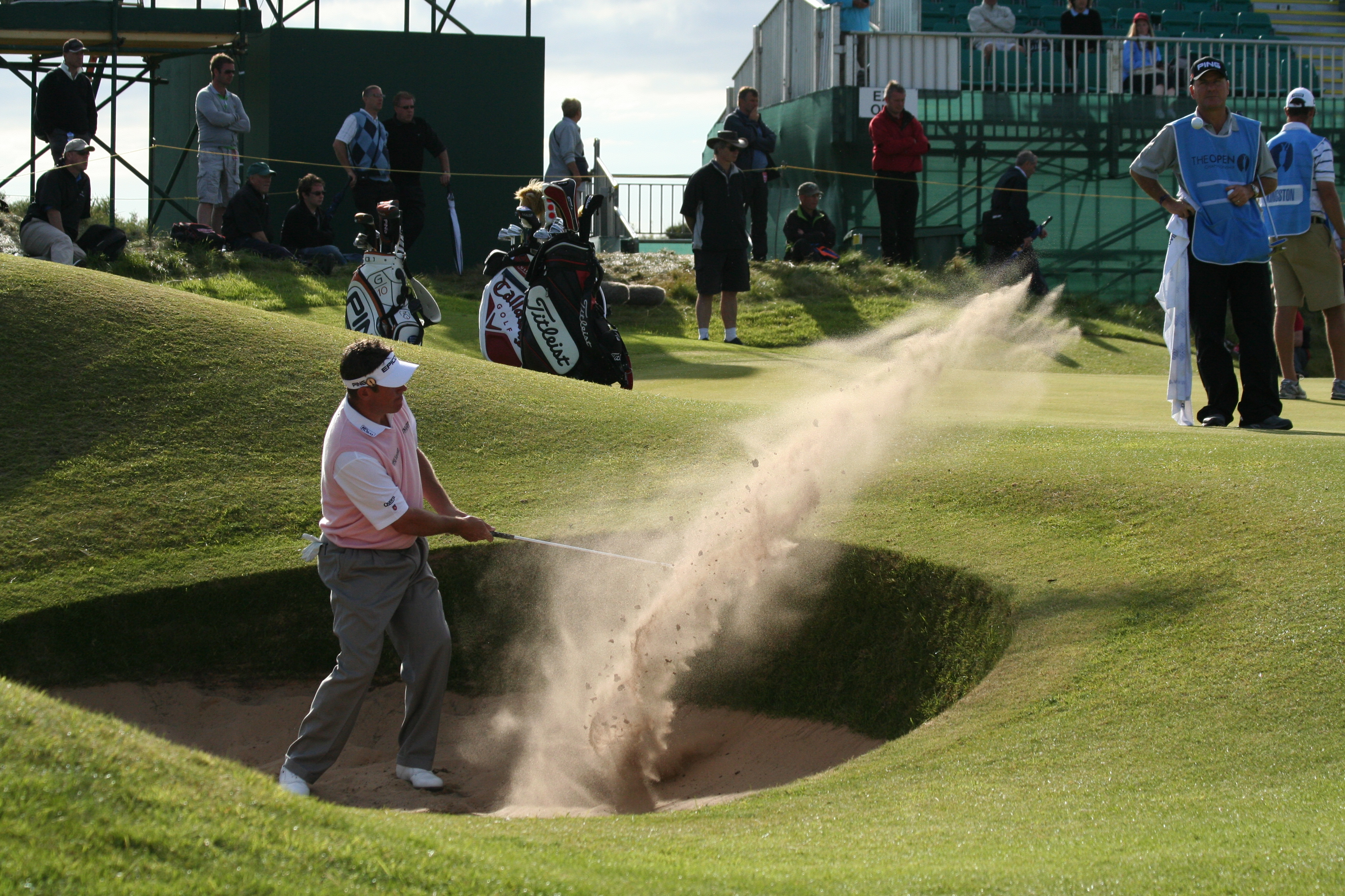 Lee Westwood makes a bunker shot at the 2008 Open Camera: Canon EOS 350D Digital License on Flickr (2011-01-27): CC-BY-2.0 Flickr tags: Lee Westwood, Royal Birkdale, Open Championship, 2008, British Open, The Open